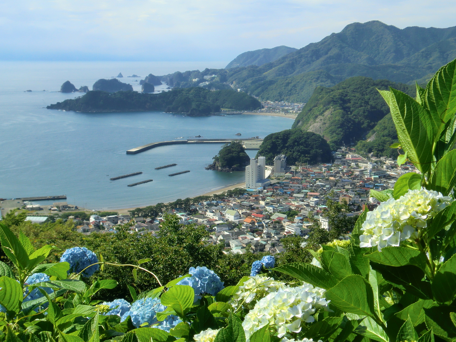 Matsuzaki-cho, Shizuoka Prefecture, Japan : Ushibarayama Chomin no Mori Park.